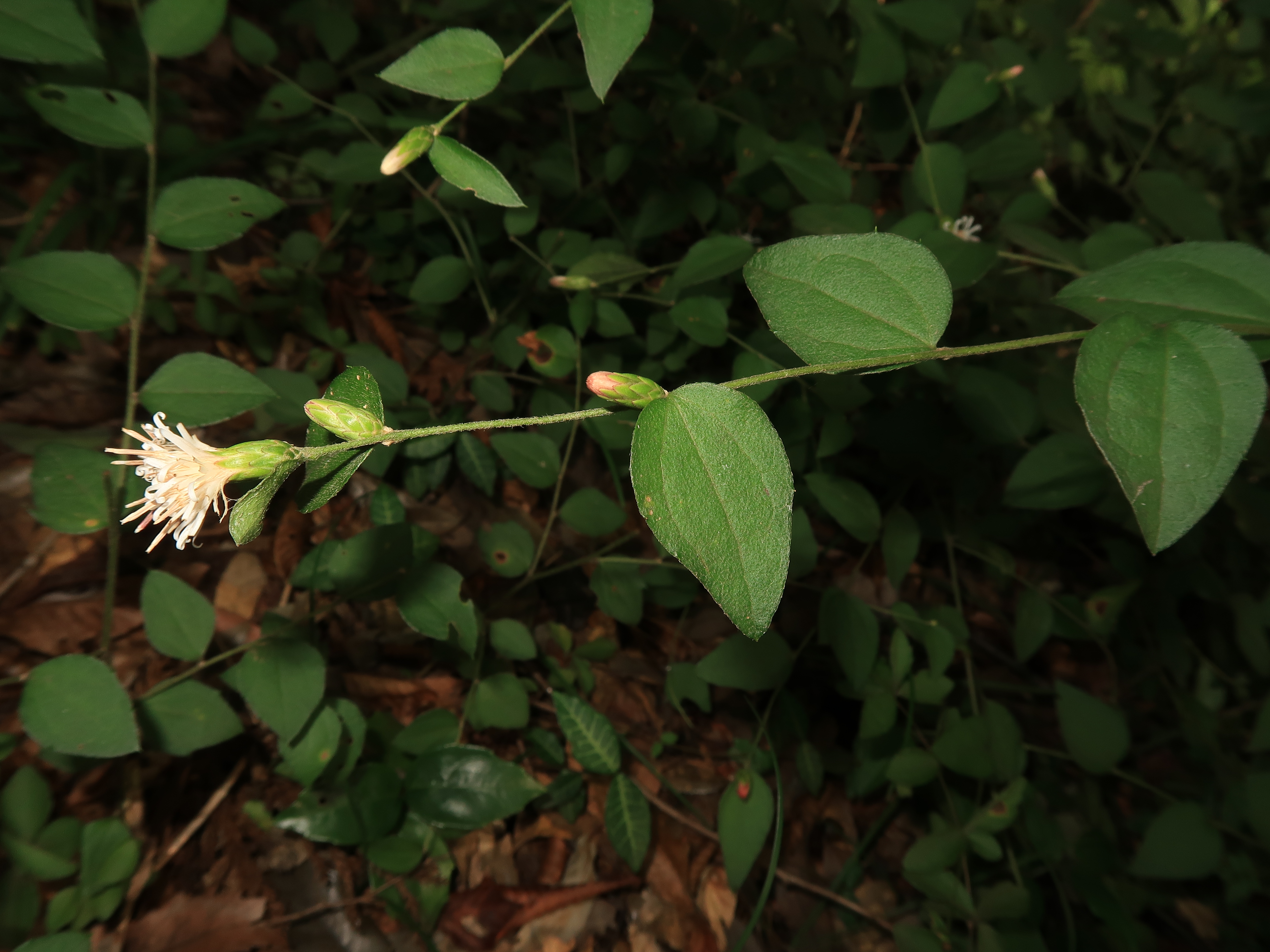 Pertya scandens, Hama-dori area, Fukushima pref., Japan